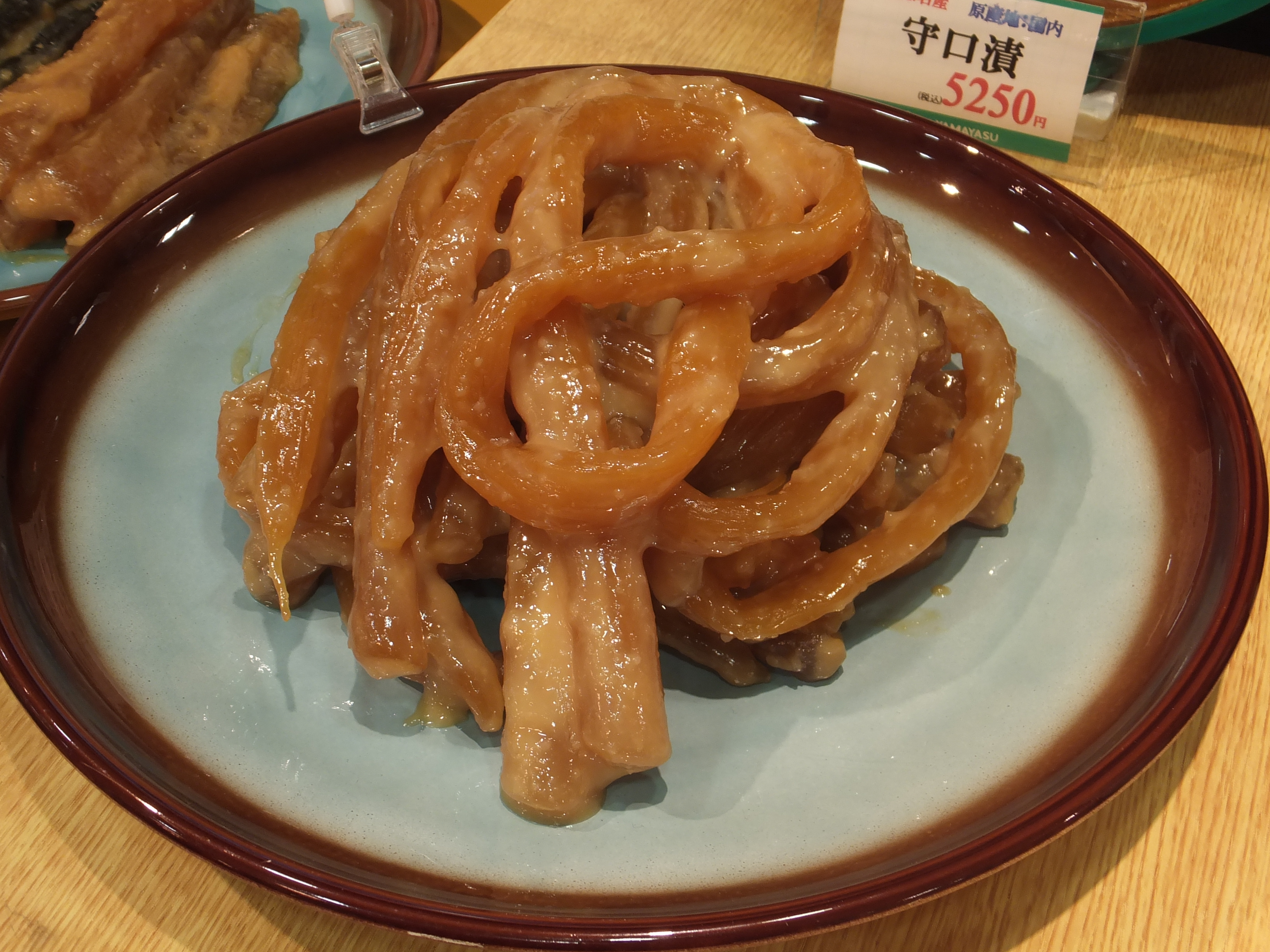 Moriguchizuke (守口漬)